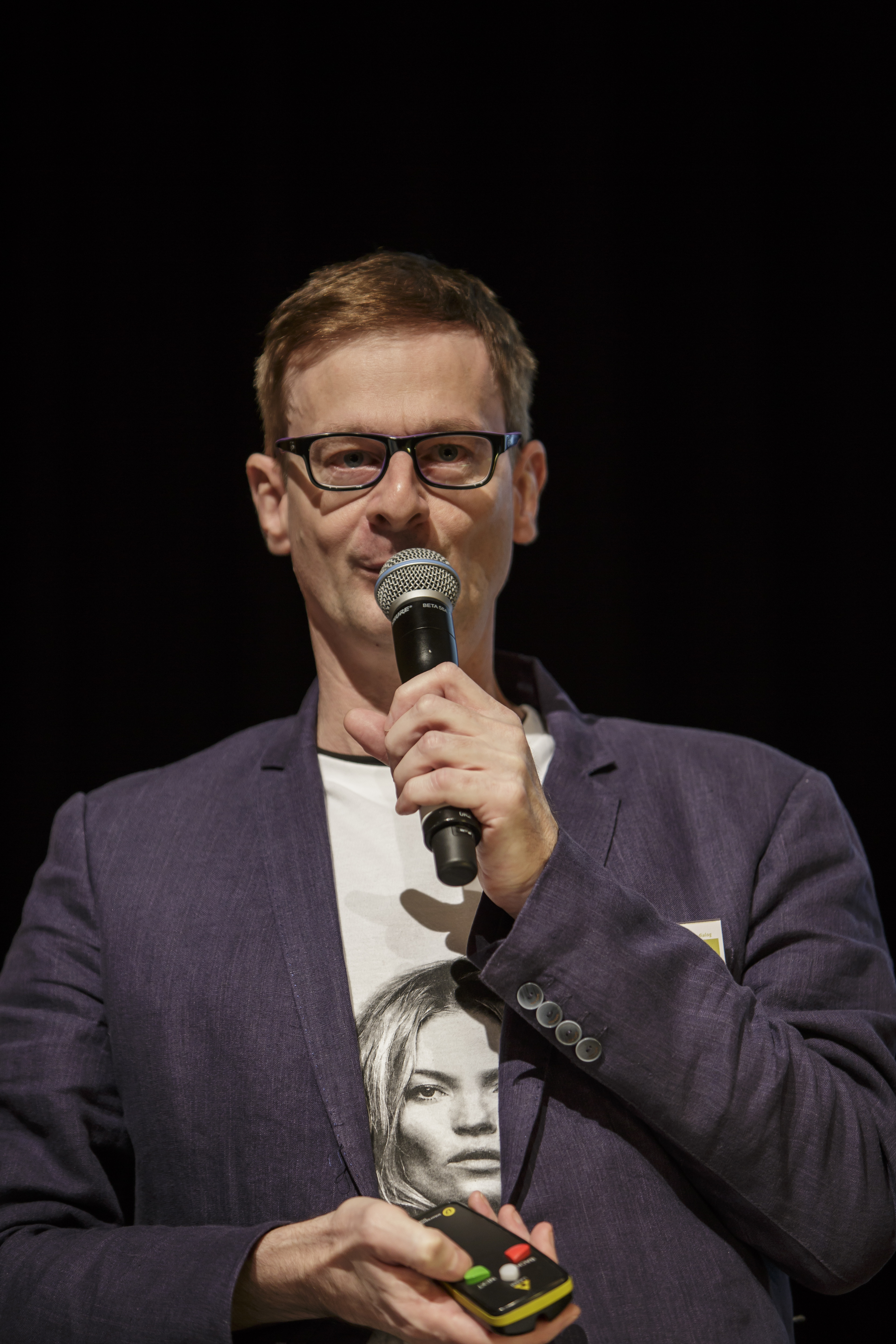 Bernd Harder